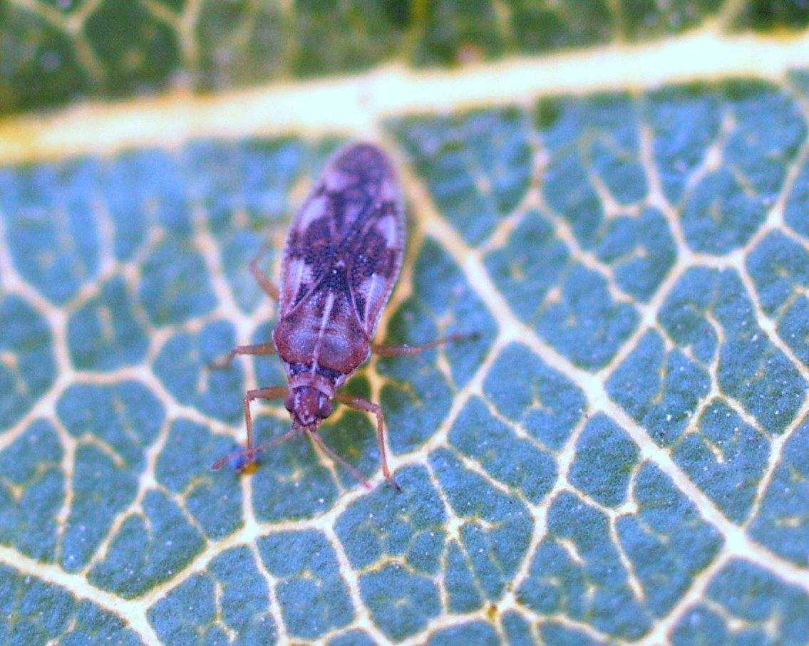 Adult of Monosteira unicostata.